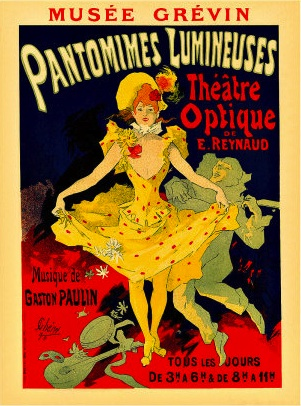 Poster for first public performance of Reynaud's 'Theatre Optique' in Paris 1892.